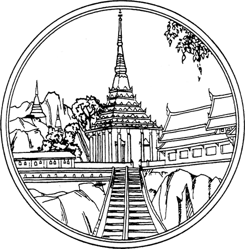 Provincial seal of Saraburi province.